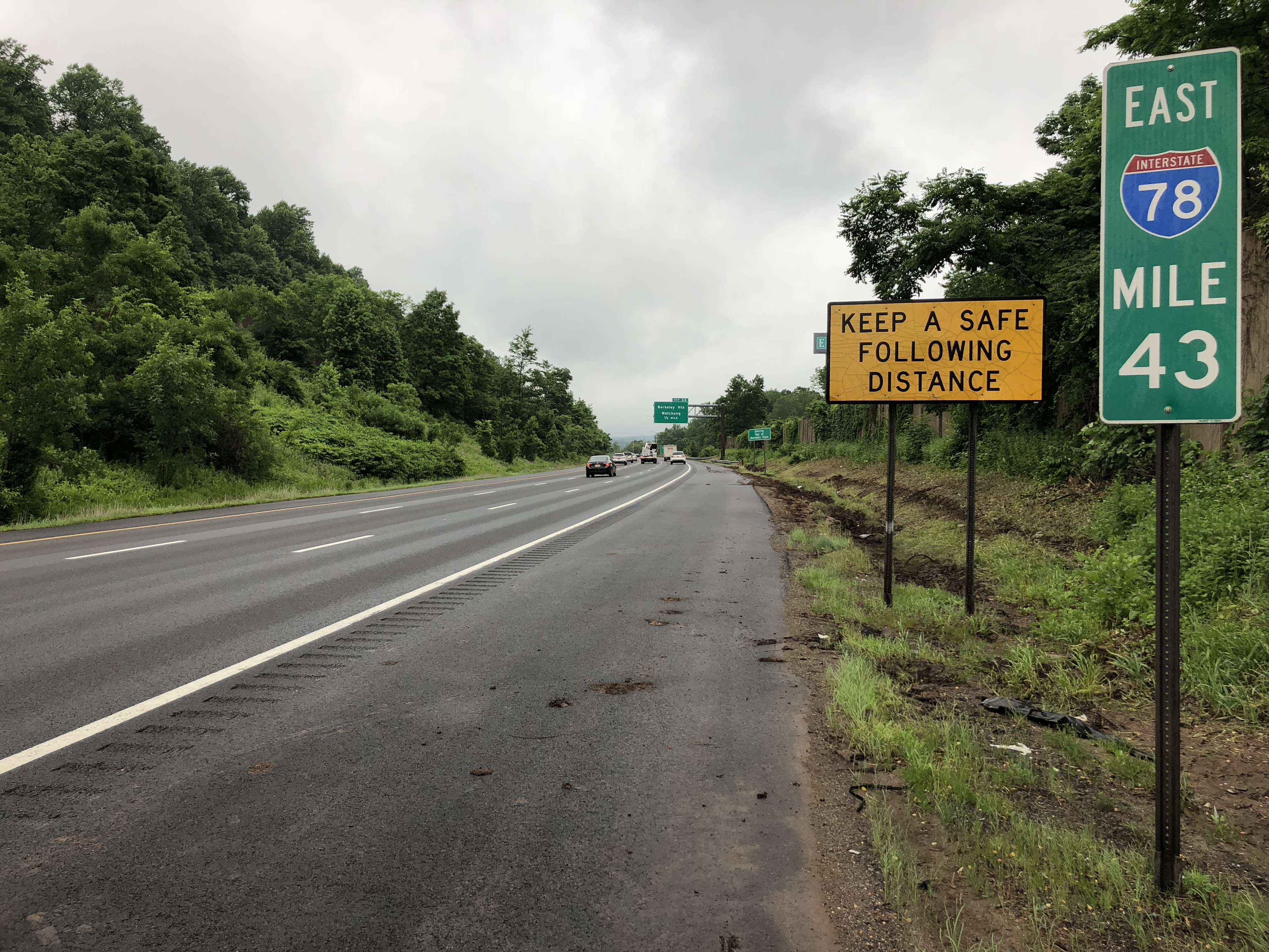 View east along Interstate 78 (Phillipsburg-Newark Expressway) between Exit 41 and Exit 43 in Berkeley Heights Township, Union County, New Jersey